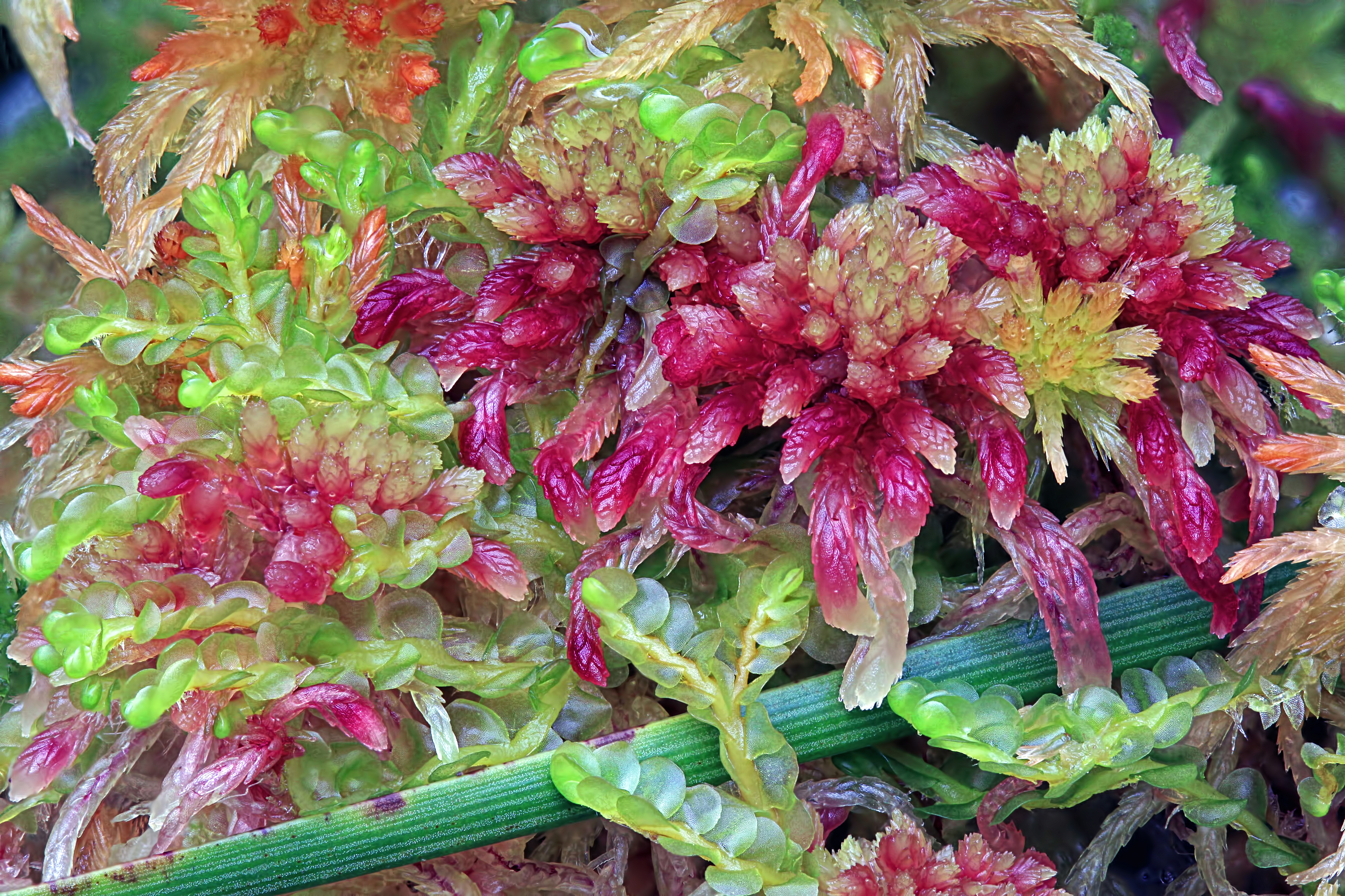 Gametophyte of Jamesoniella undulifolia amongst Sphagnum capillifolium and Sphagnum fallax